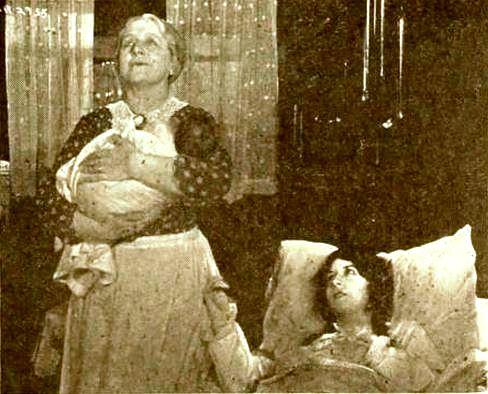 Still from the American film The Heart of Humanity (1918) with Margaret Mann and Dorothy Phillips, on page 201 of the January 11, 1919 Moving Picture World.